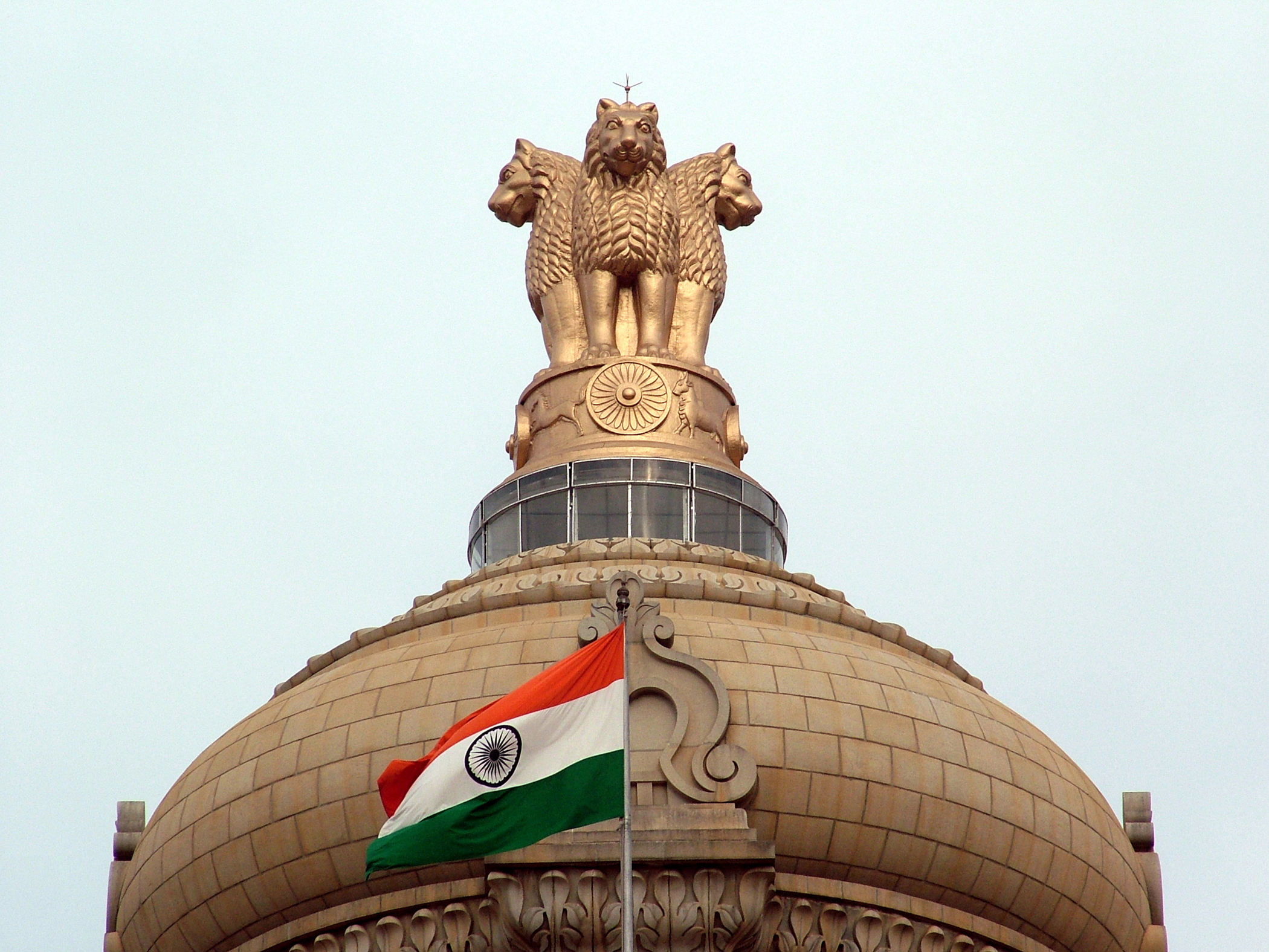 Indian flag and the State Emblem atop Vidhana Soudha in Bengaluru (Bangalore).